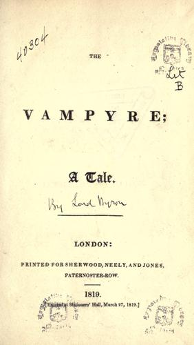 1819 title page, The Vampyre, by John Polidori, Sherwood, Neely and Jones, London.